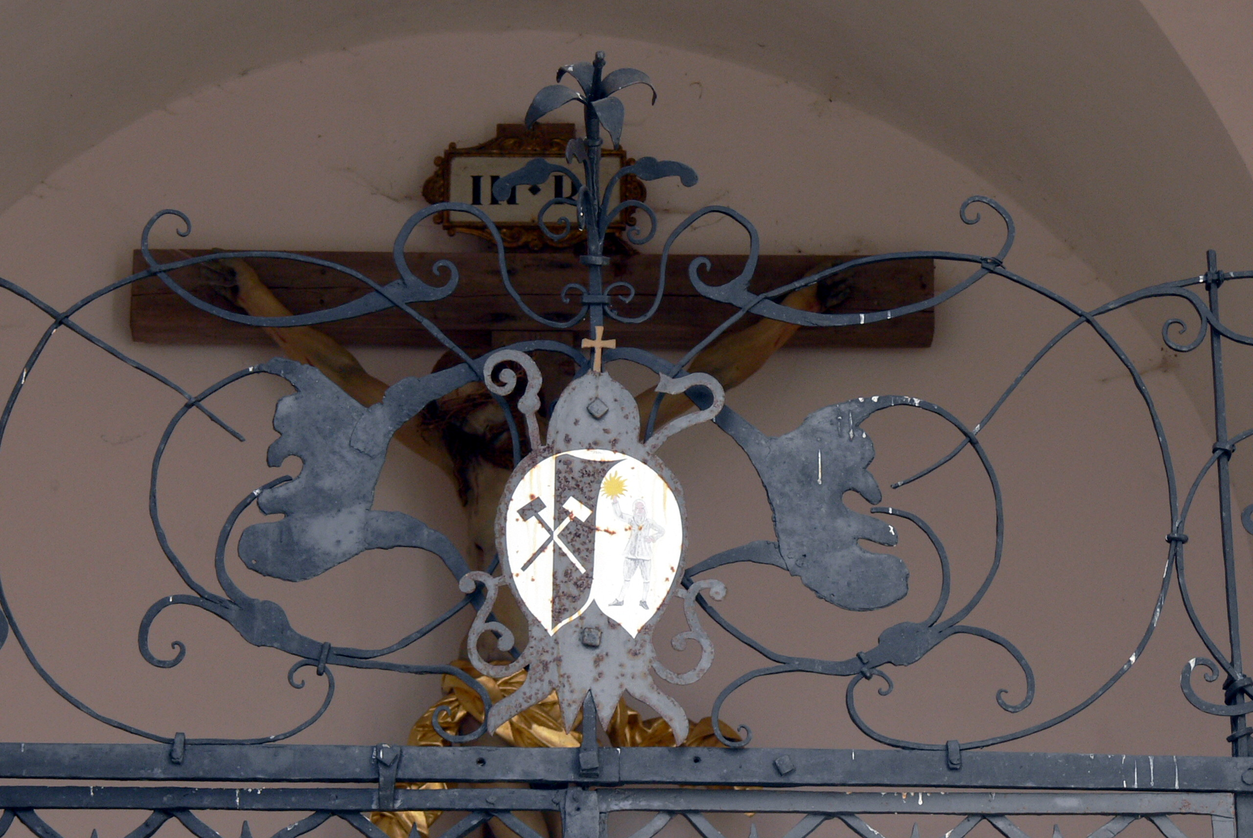 St.Wolfgang am Stein ( Schlägl/Upper Austria ). Chapel of Peace ( 1652 ) - Metal fence ( 17th century ) with coats of arms of Martin Greysing, abbot of Schlägl monastery.